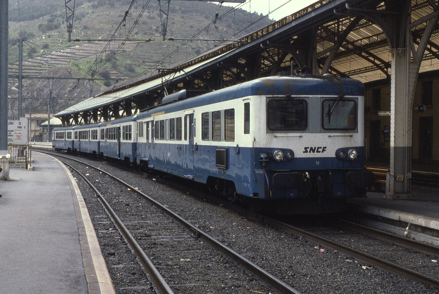 Train station of Cerbère: Series Z7100 EMUs dating back to the early 1960s comprised of a power car (closest to the camera) and loose trailers rather than fixed formed sets. Based at Vénissieux depot in the suburbs of Lyon, these worked over much of the line through Avignon and along the coast to the Spanish border. Seen at the frontier station of Cerbère on 9 April 1987, Z7118 forms the 14:48 departure to Perpignan.